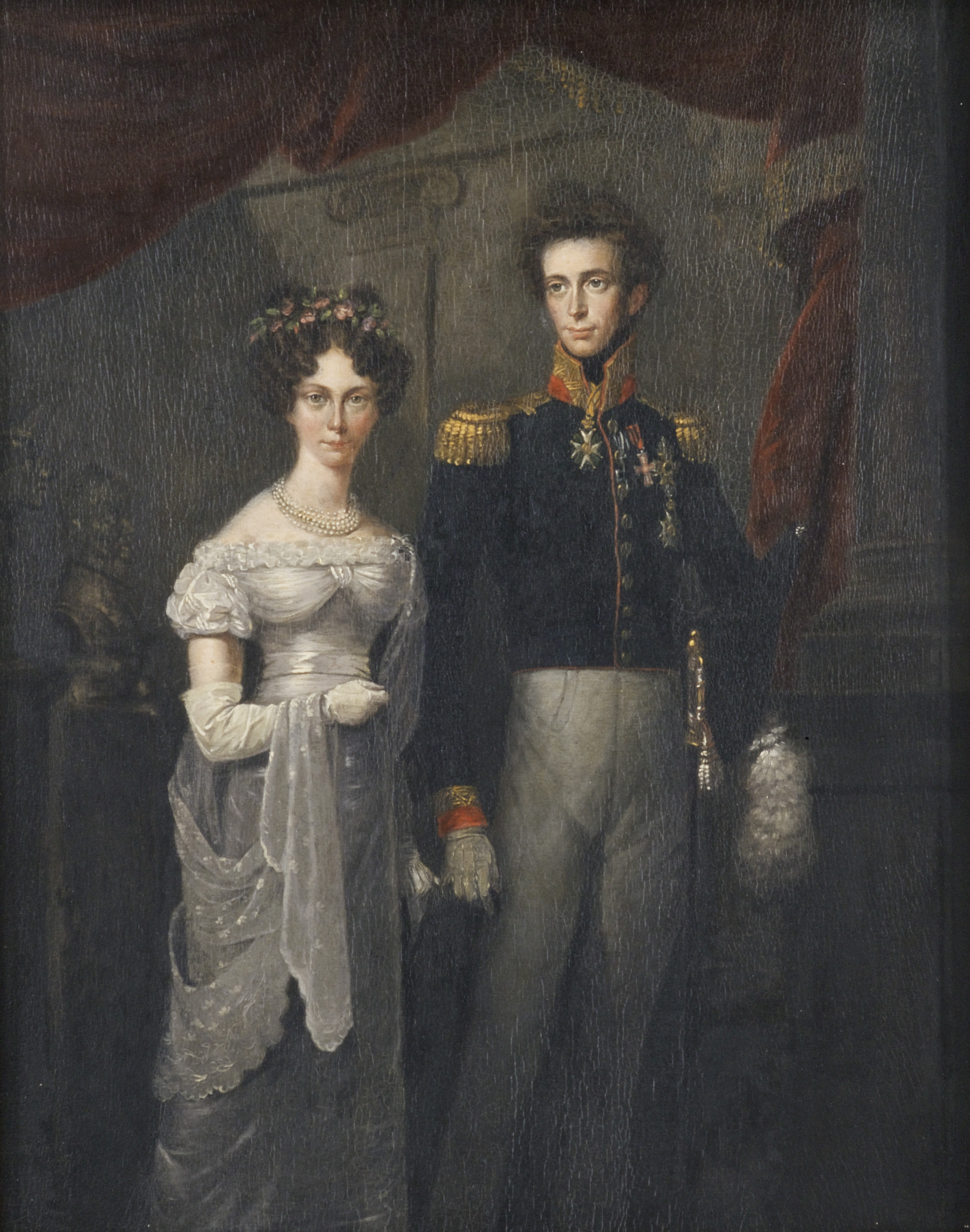 Huwelijkportret van Willem Frederik Karel, prins der Nederlanden (1797-1881) en Louise, prinses van Pruisen, prinses der Nederlanden (1808-1870)